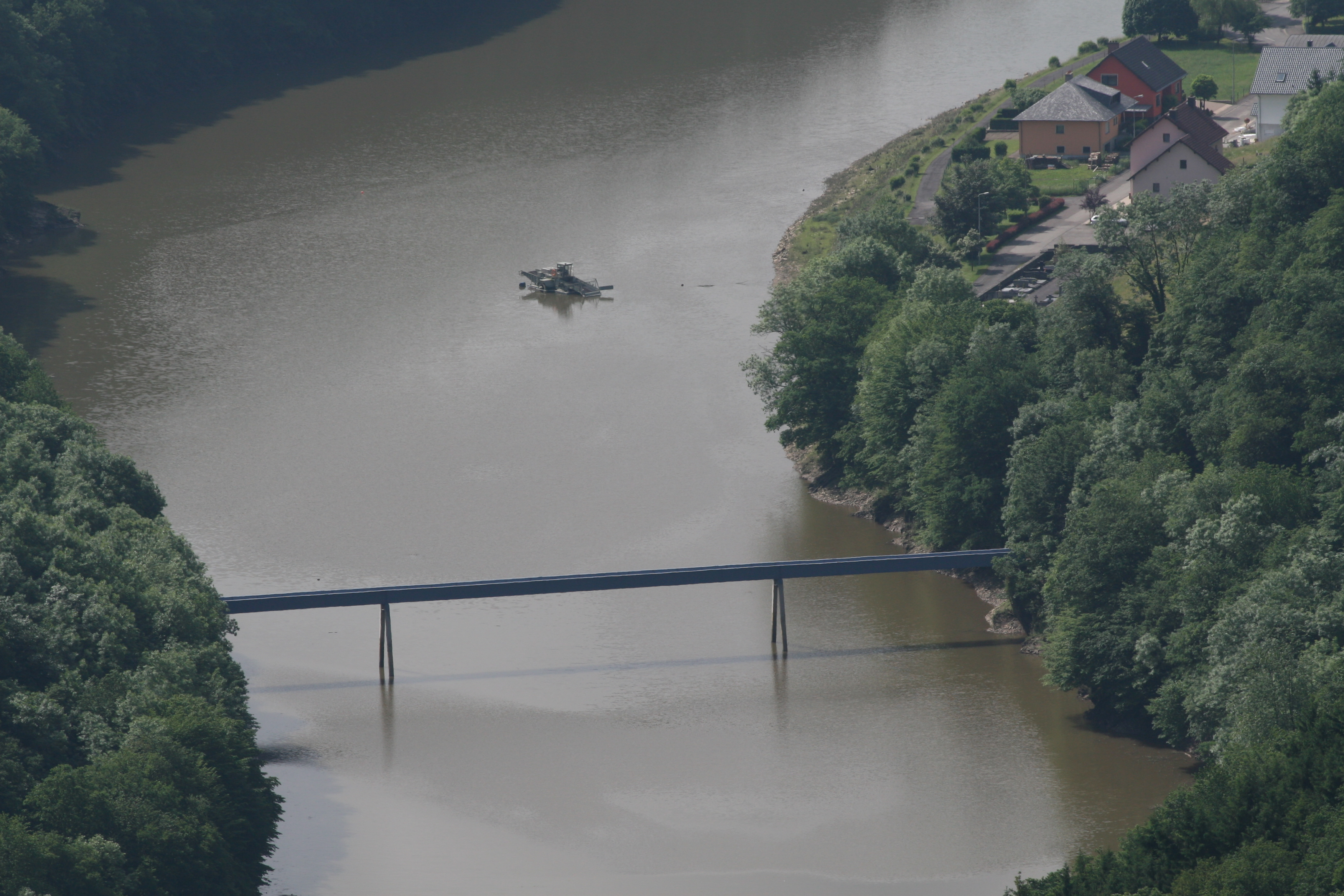 The foot bridge crossing the lake to Germany near Bivels, Luxembourg